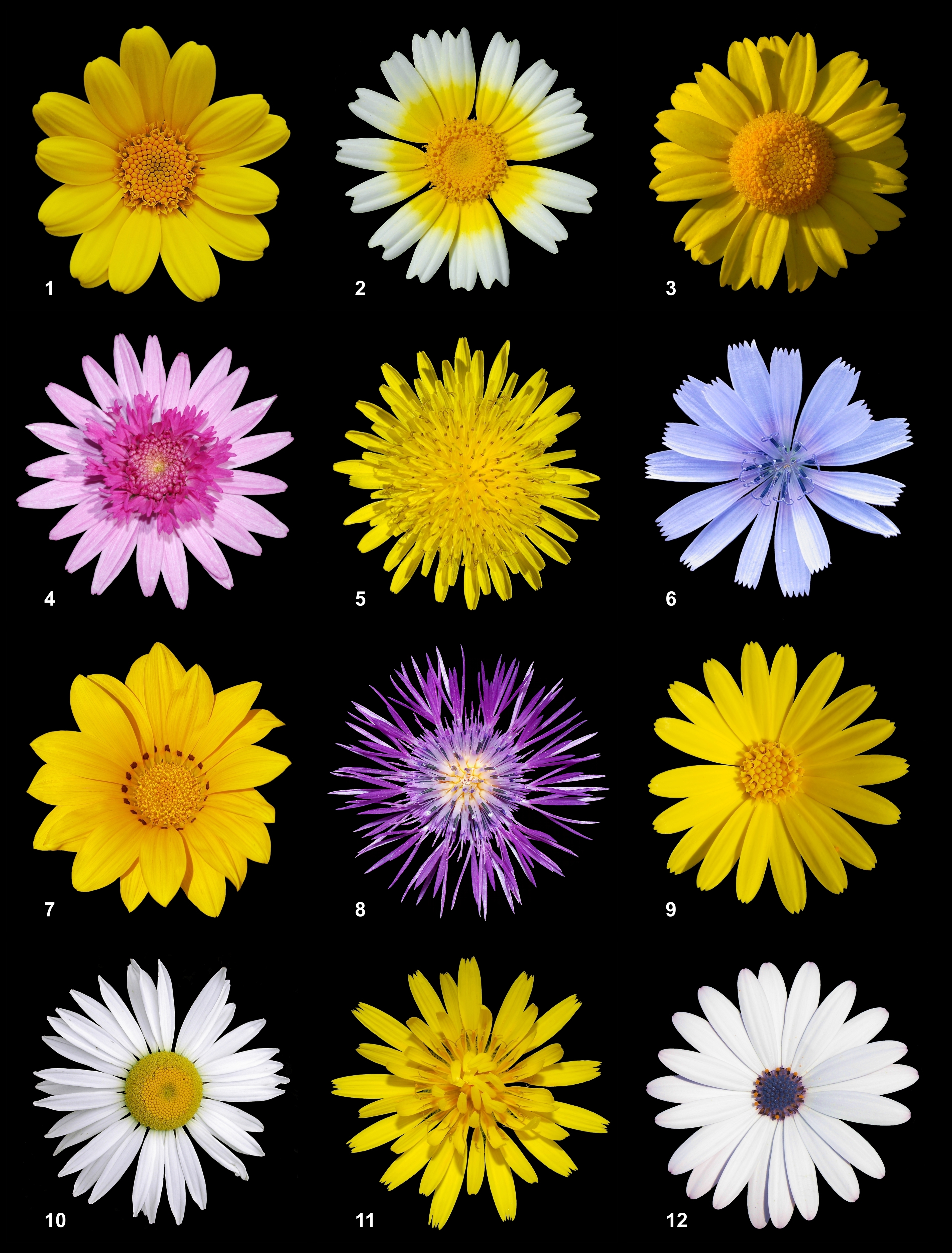 A poster of twelve different species of flowers of the family Asteraceae, belonging to the three most representative subfamilies: Asteroideae, Cichorioideae and Carduoideae: Yellow Chamomille - Anthemis tinctoria (Asteroideae) Crown Daisy - Glebionis coronarium (Asteroideae) Corn Marigold - Coleostephus myconis (Asteroideae) Marguerite - Argyranthemum frutescens 'Bridesmaid' (Asteroideae) Sow Thistle - Sonchus oleraceus (Cichoireideae) Chicory - Cichorium intybus (Cichoireideae) Treasure Flower - Gazania rigens (Cichoireideae) Galactites - Galactites tomentosa (Carduoideae) Field Marigold - Calendula arvensis (Asteroideae) Ox-eye daisy – Leucanthemum vulgare (Asteroideae) Common Hawkweed - Hieracium lachenalii (Cichoireideae) Cape Daisy - Osteospermum ecklonis (Asteroideae)